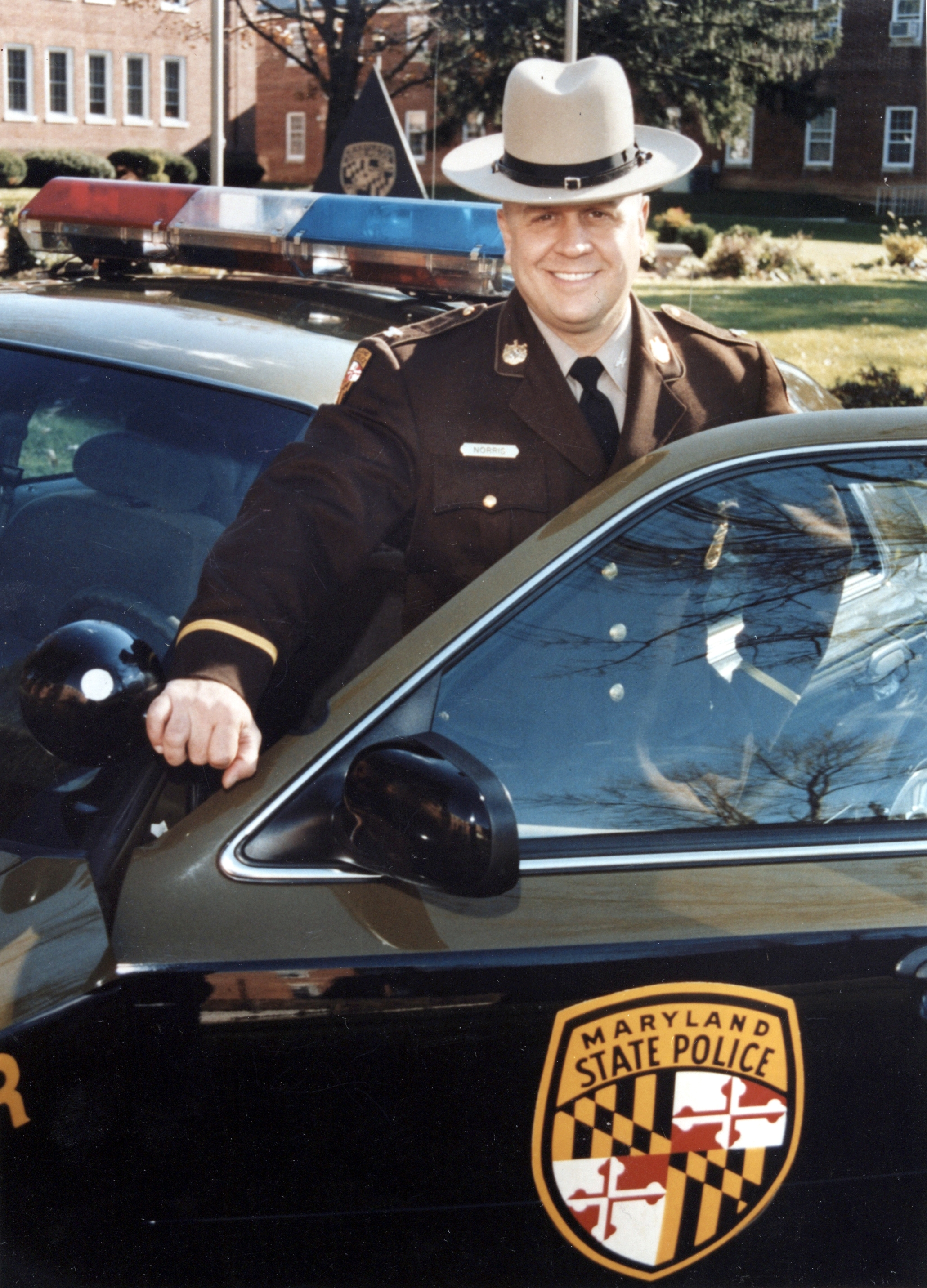 Ed Norris, Maryland State Police circa 2003